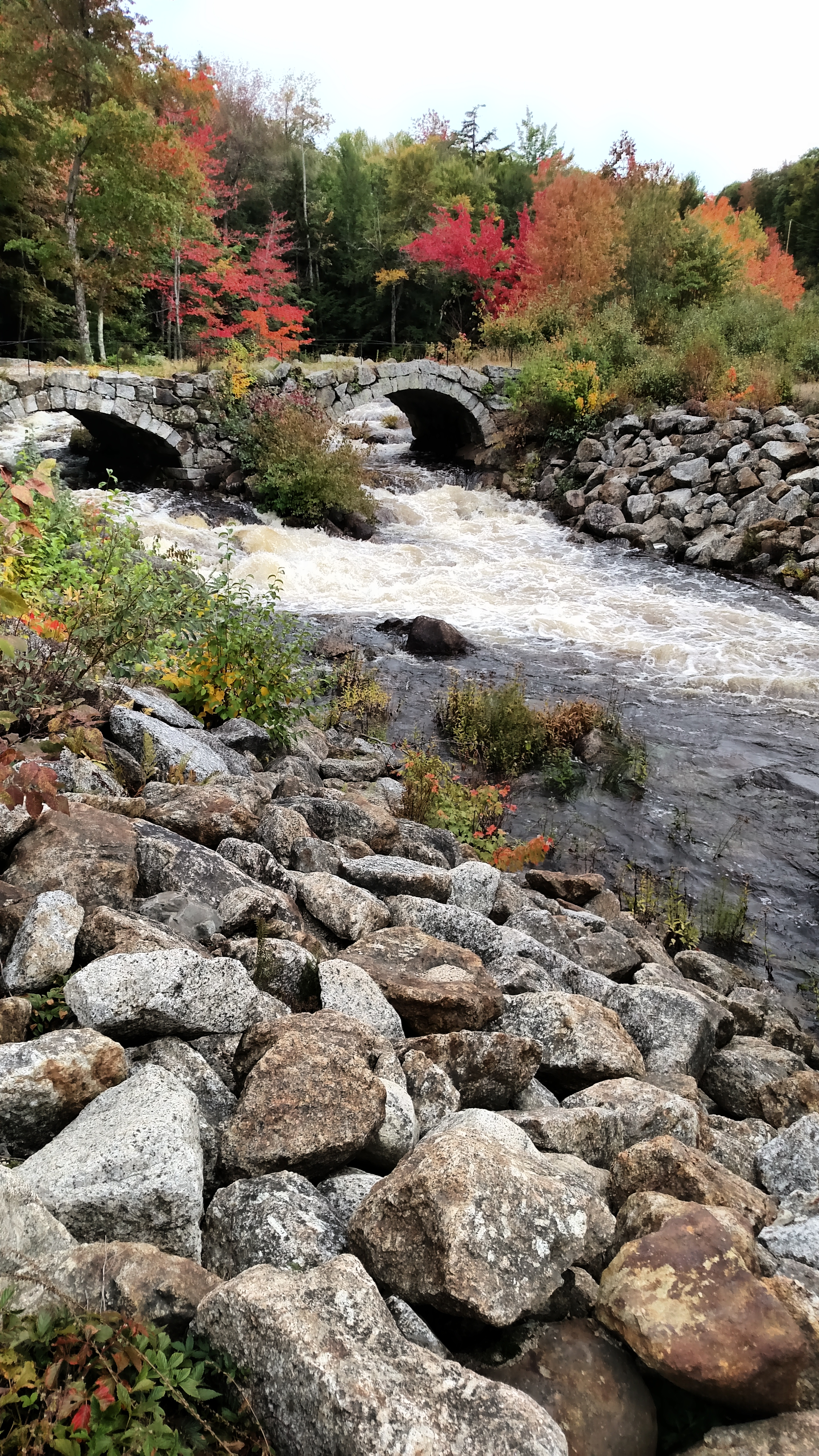 Stoddard, New Hampshire - Stone Arcb Bridge